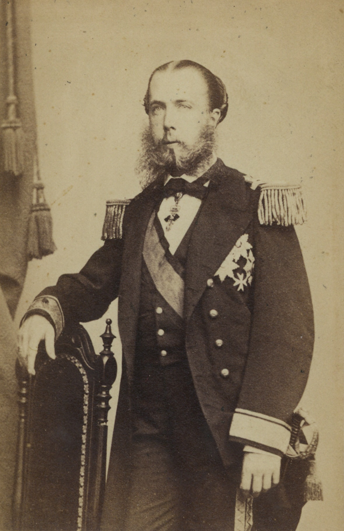 Archduke Maximilian of Habsburg, sometime before he became Emperor of Mexico as Don Maximiliano I, 1863.